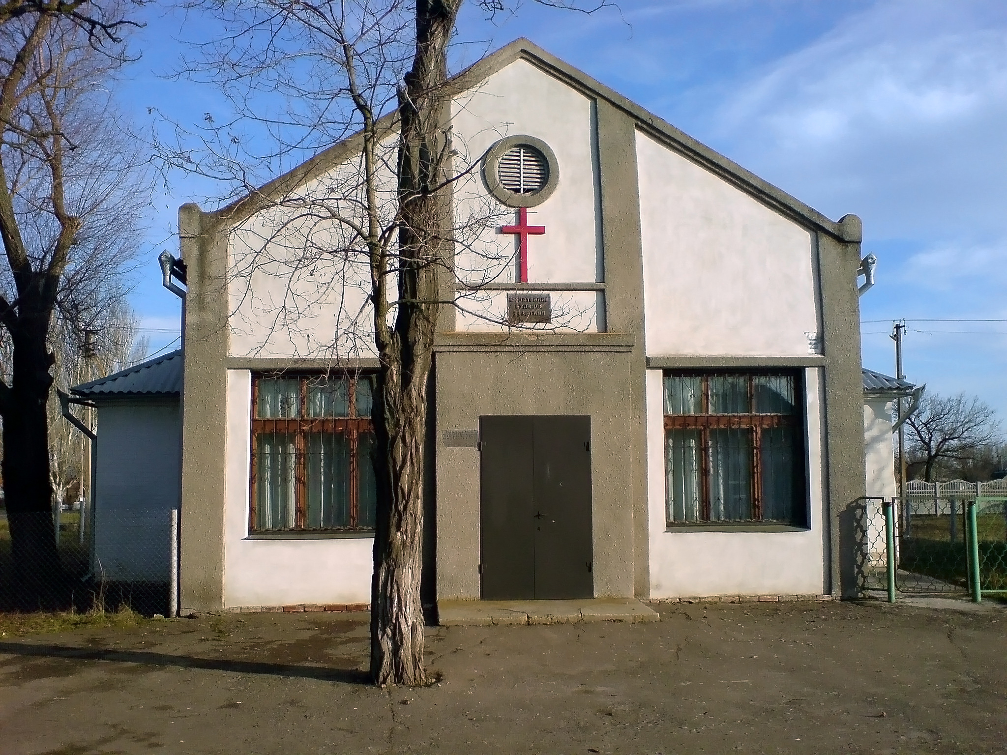 Baptist church in the village Svetlodolinskoie, Melitopol raion, Ukraine